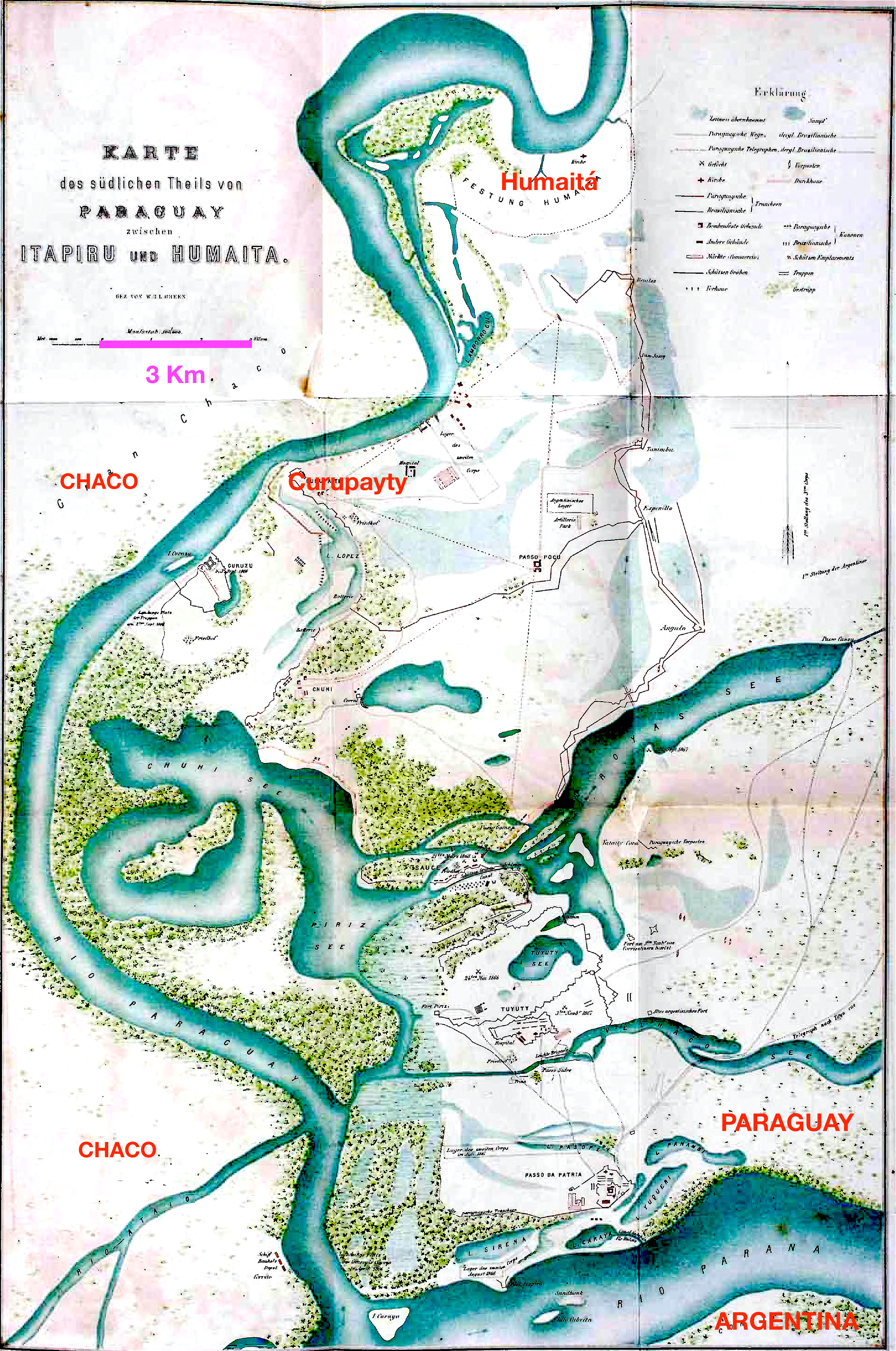 Humaitá in context. The wetland of southeastern Paraguay, where the Allies were bogged down for two and a half years.